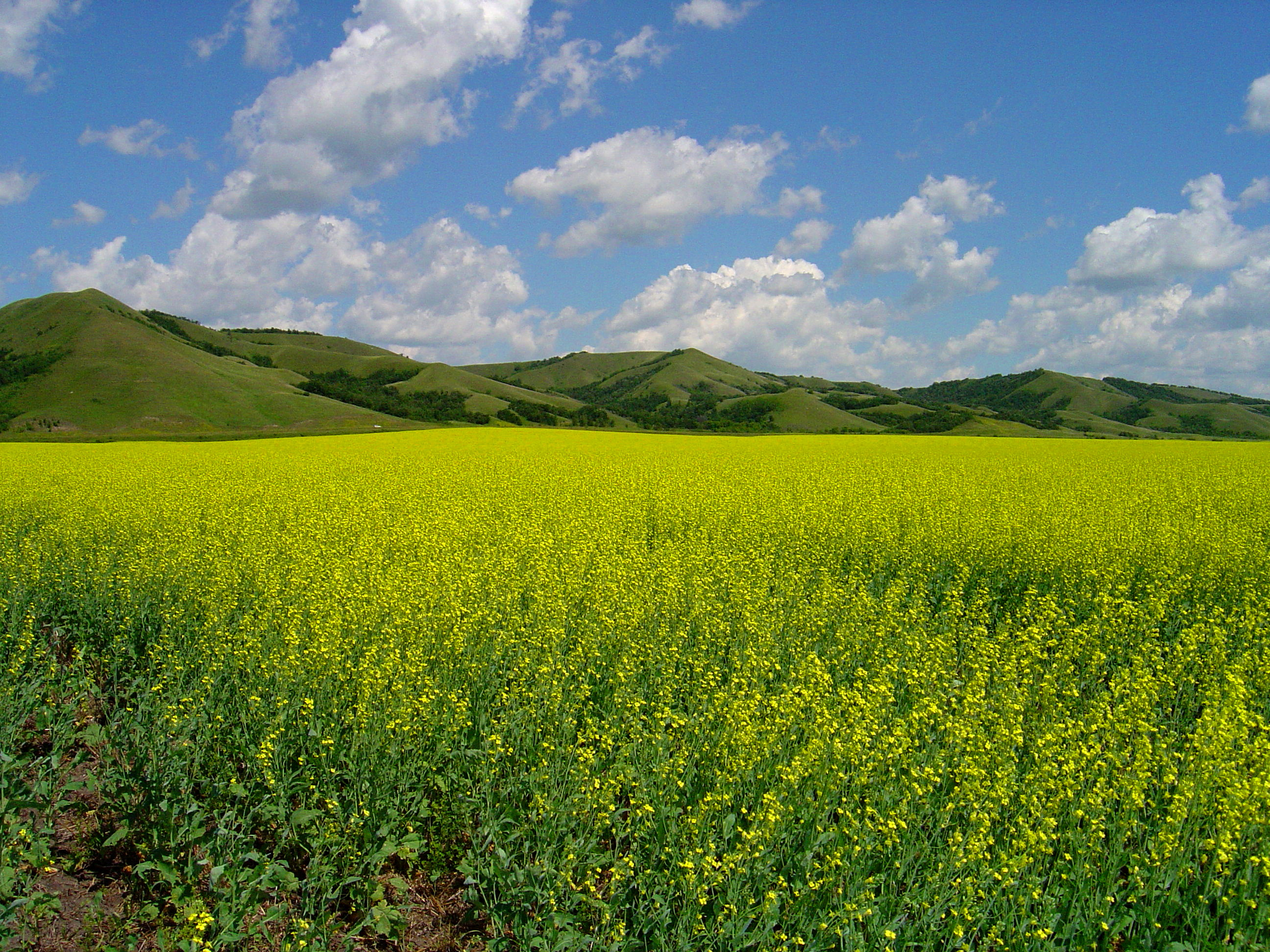 The Qu'Appelle Valey with a field of Canola, late summer, Southern Saskatchewan